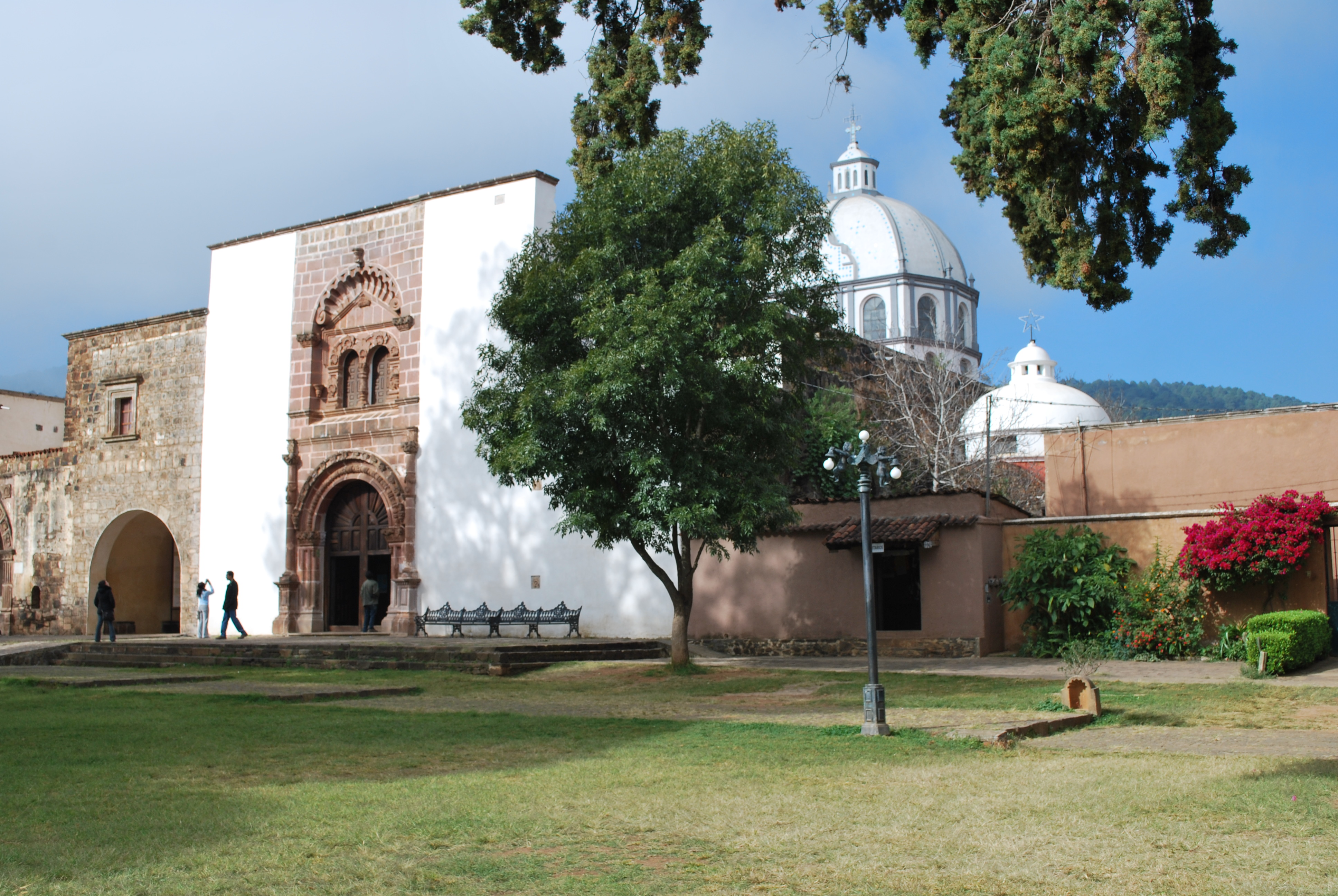 Facade of the Church of San Francisco of the Church and monastery complex of San Francisco in Tzintzuntzan, Michoacan